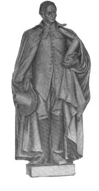 Statue of Puritan Rev. Thomas Hooker, chief founder of the state of Connecticut, Hartford, Connecticut